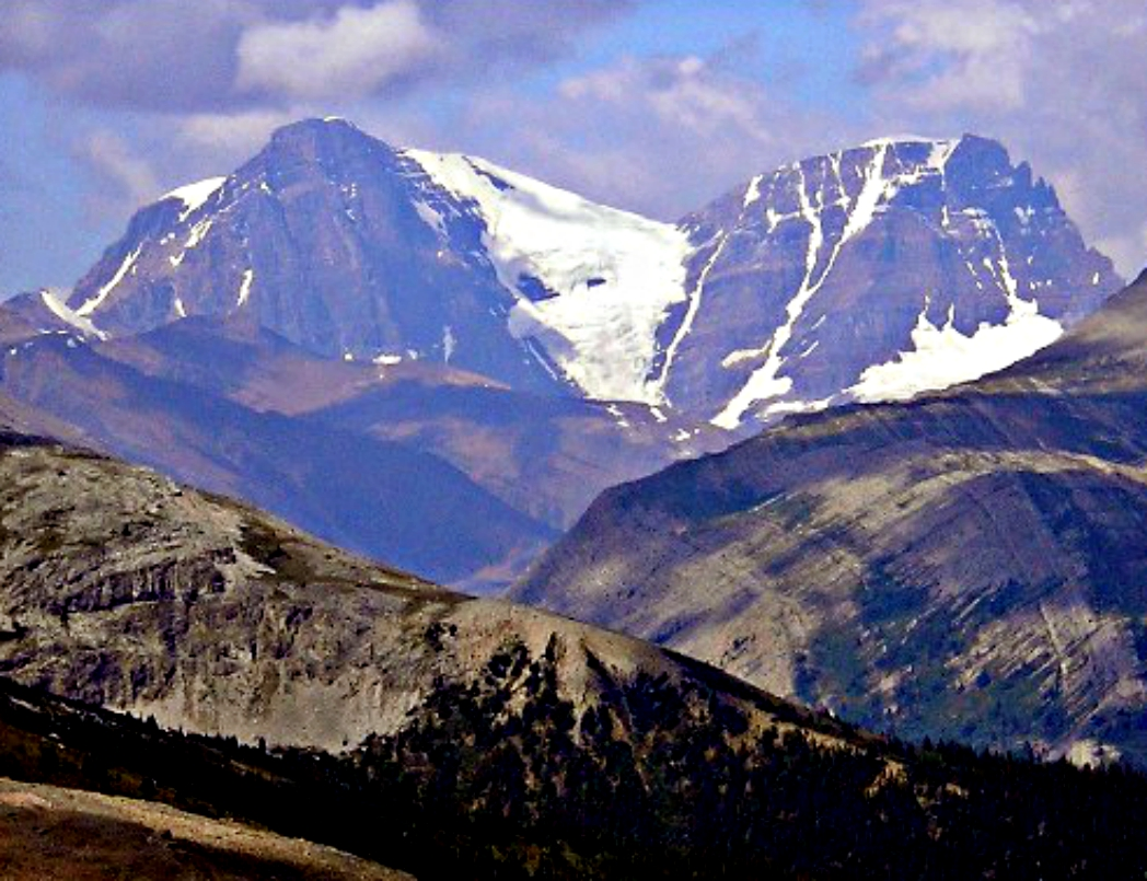 Mount Woolley and Diadem Peak seen from Parker Ridge